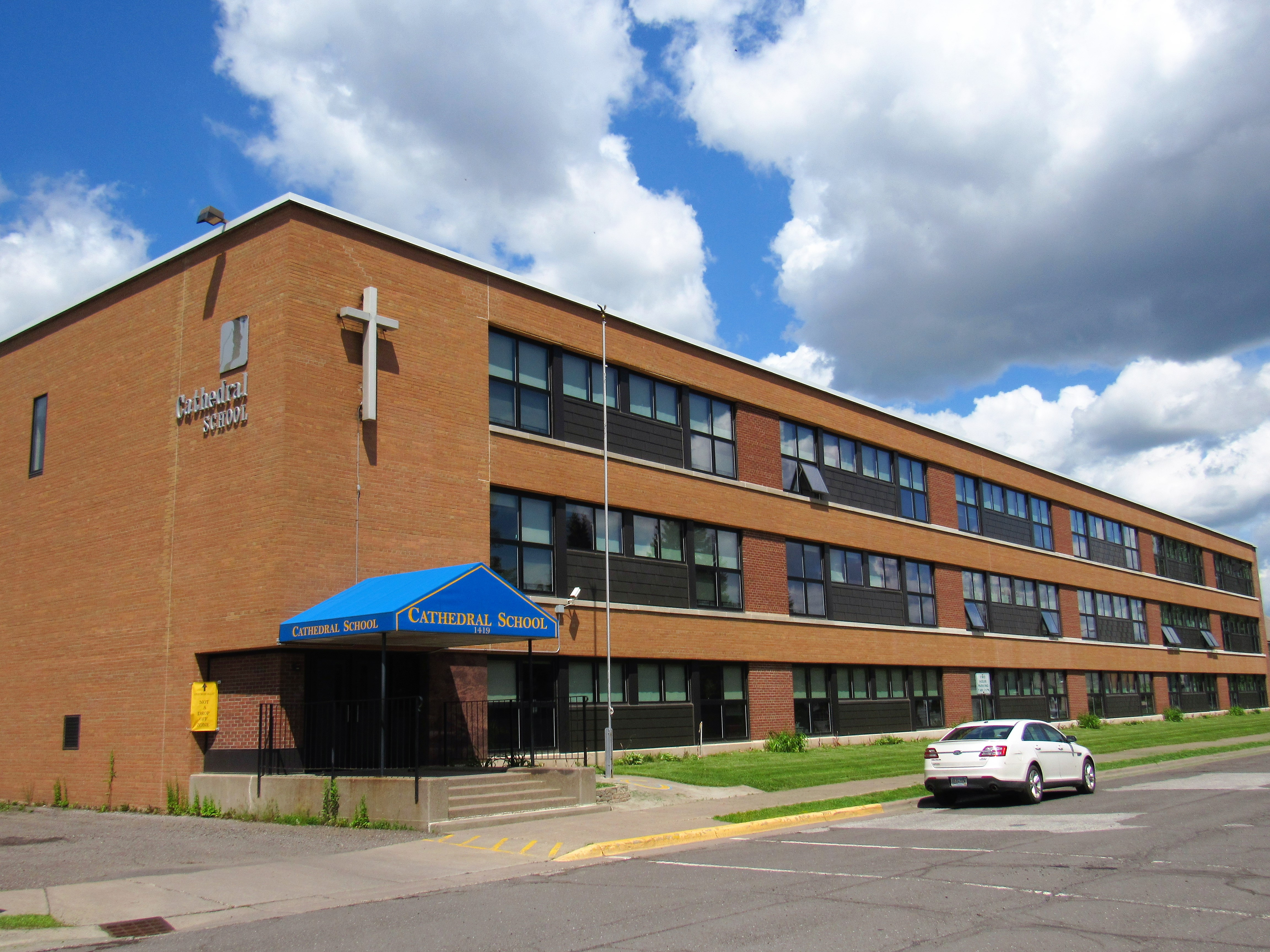 Cathedral School at the Cathedral of Christ the King in Superior, Wisconsin.